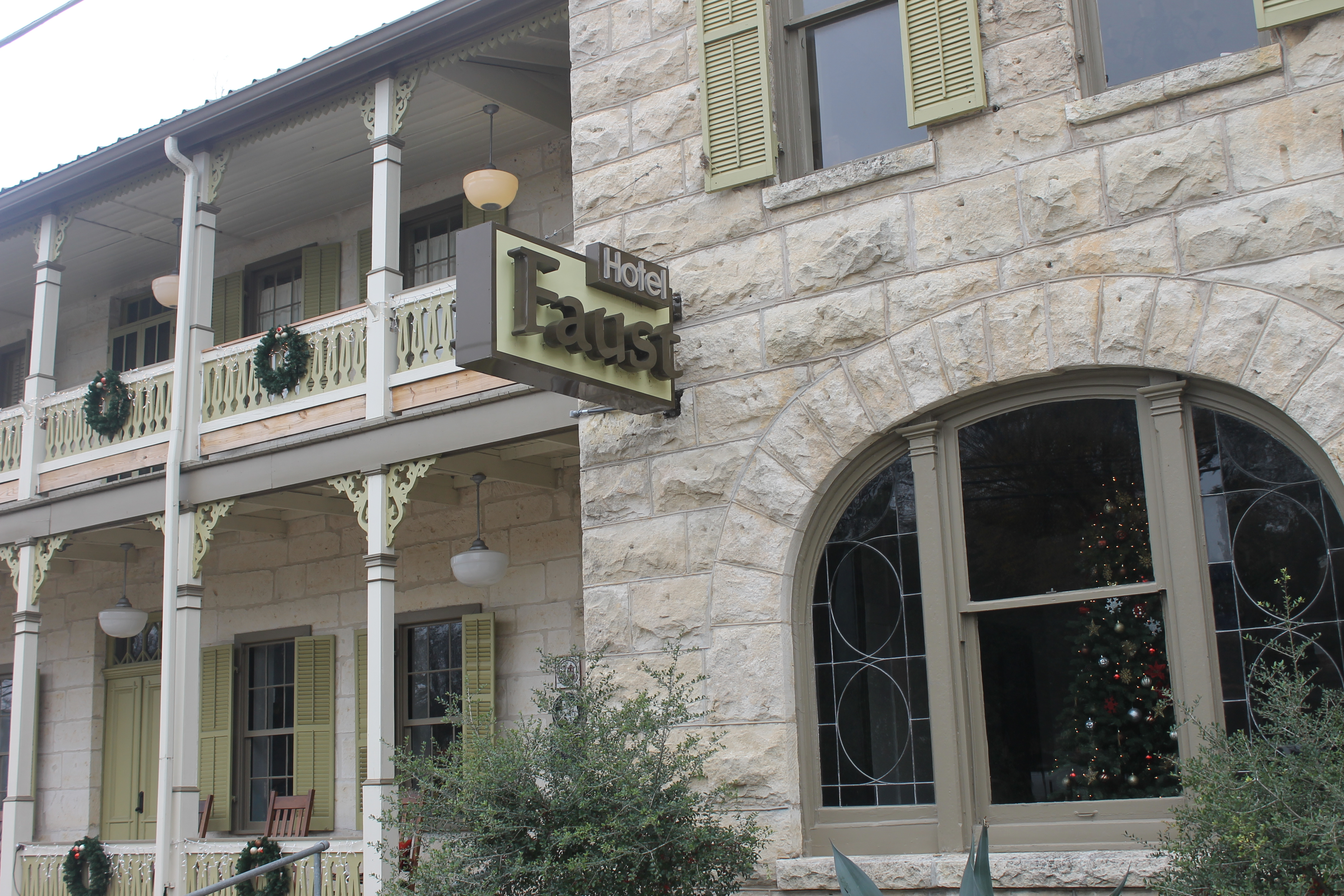 Hotel Faust in Comfort, TX